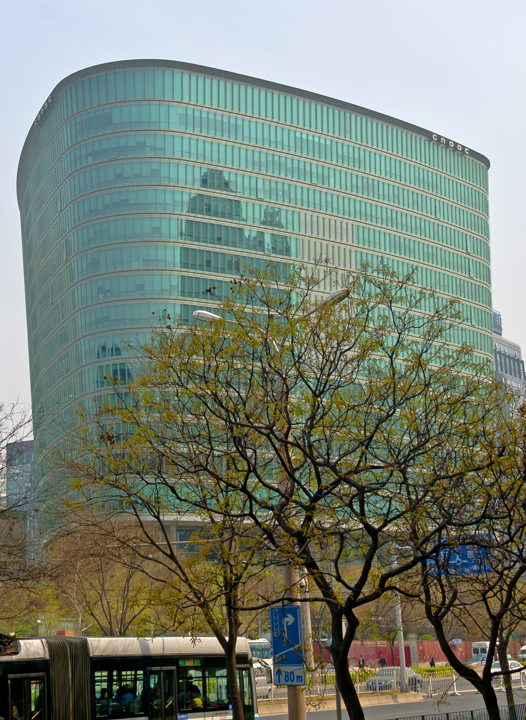 China National Offshore Oil Corporation (CNOOC) headquarters building (on right), designed by Kohn Pedersen Fox, in Chaoyangmen neighborhood of Beijing.